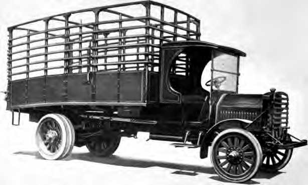 Carrying capacity: 7000 pounds (3.5 short tons, 3175 kg) Wheelbase: 168 inches (4.62 m) Wheels: Wooden, Tires 36 x 5 inches Engine: Gasoline inline four, Bore x Stroke 4¼ x 5½ inches (108 mm x 140 mm), 28.9 hp (NACC rating) Cost (chassis): $3950